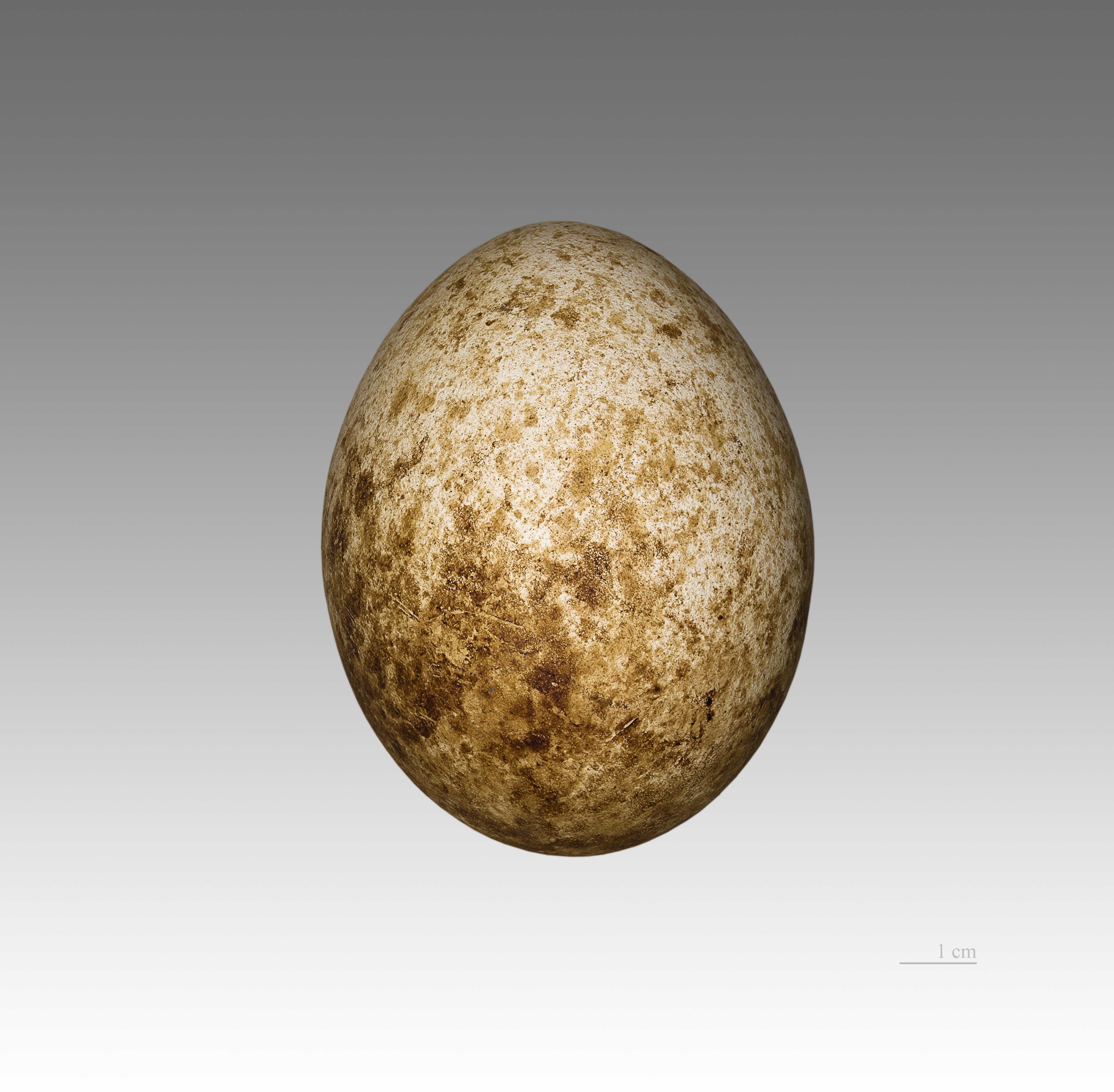 Egg of Palm-nut Vulture. Collection of René de Naurois /Jacques Perrin de Brichambaut. Locality: Bissagos Islands, Guinea-Bissau.